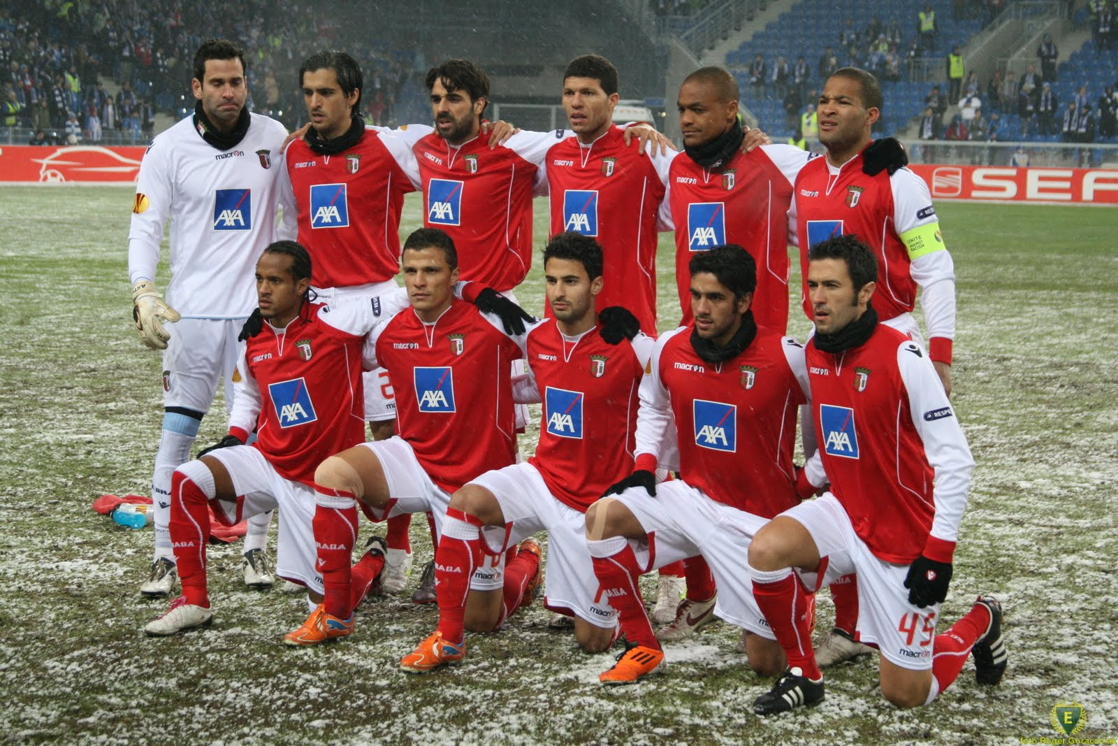 SC Braga before match in Europa League against KKS Lech Poznań